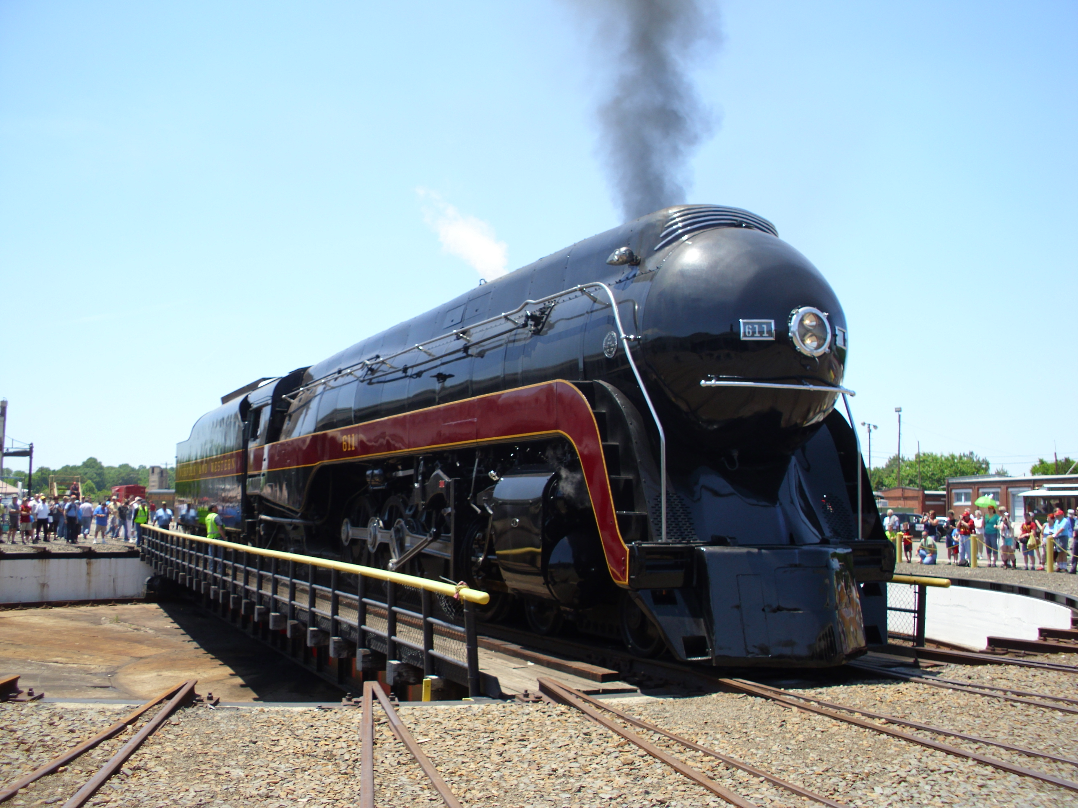 Norfolk & Western 611 under steam at the North Carolina Transportation Museum, 23 May 2015.